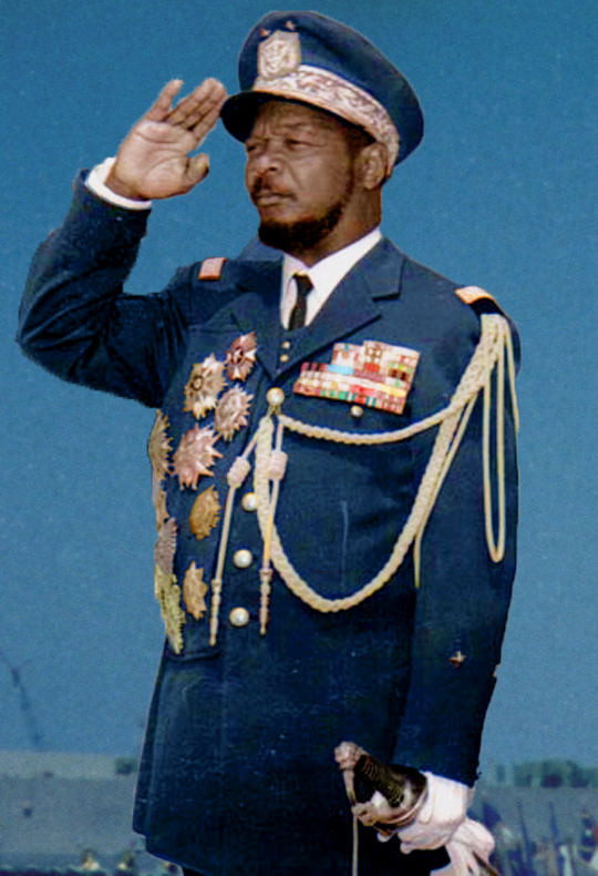 Jean-Bedel Bokassa (1970s)